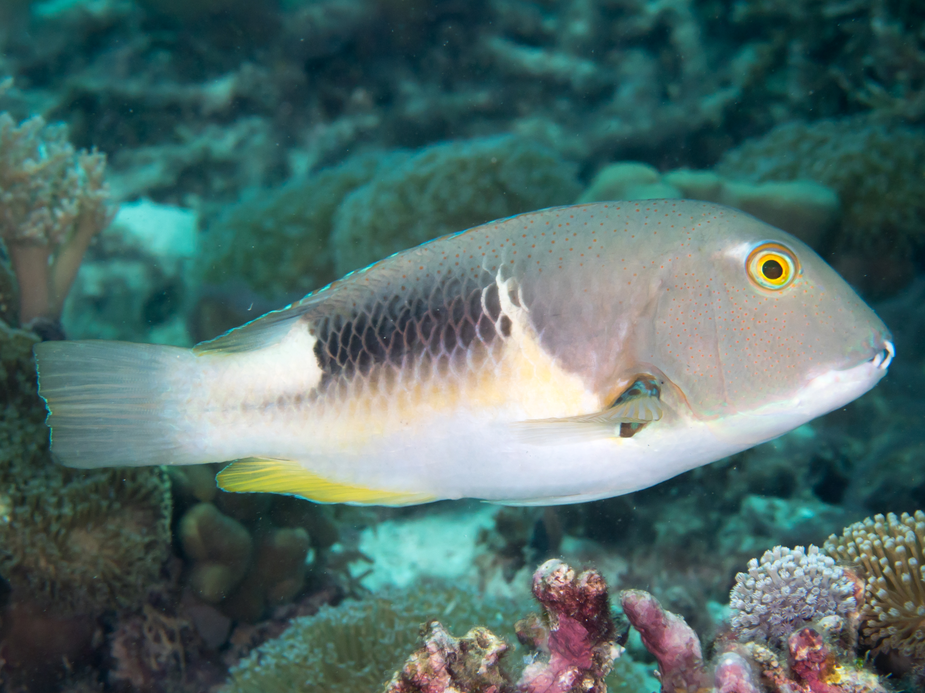 Anchor tuskfish (Choerodon anchorago). Raja Ampat